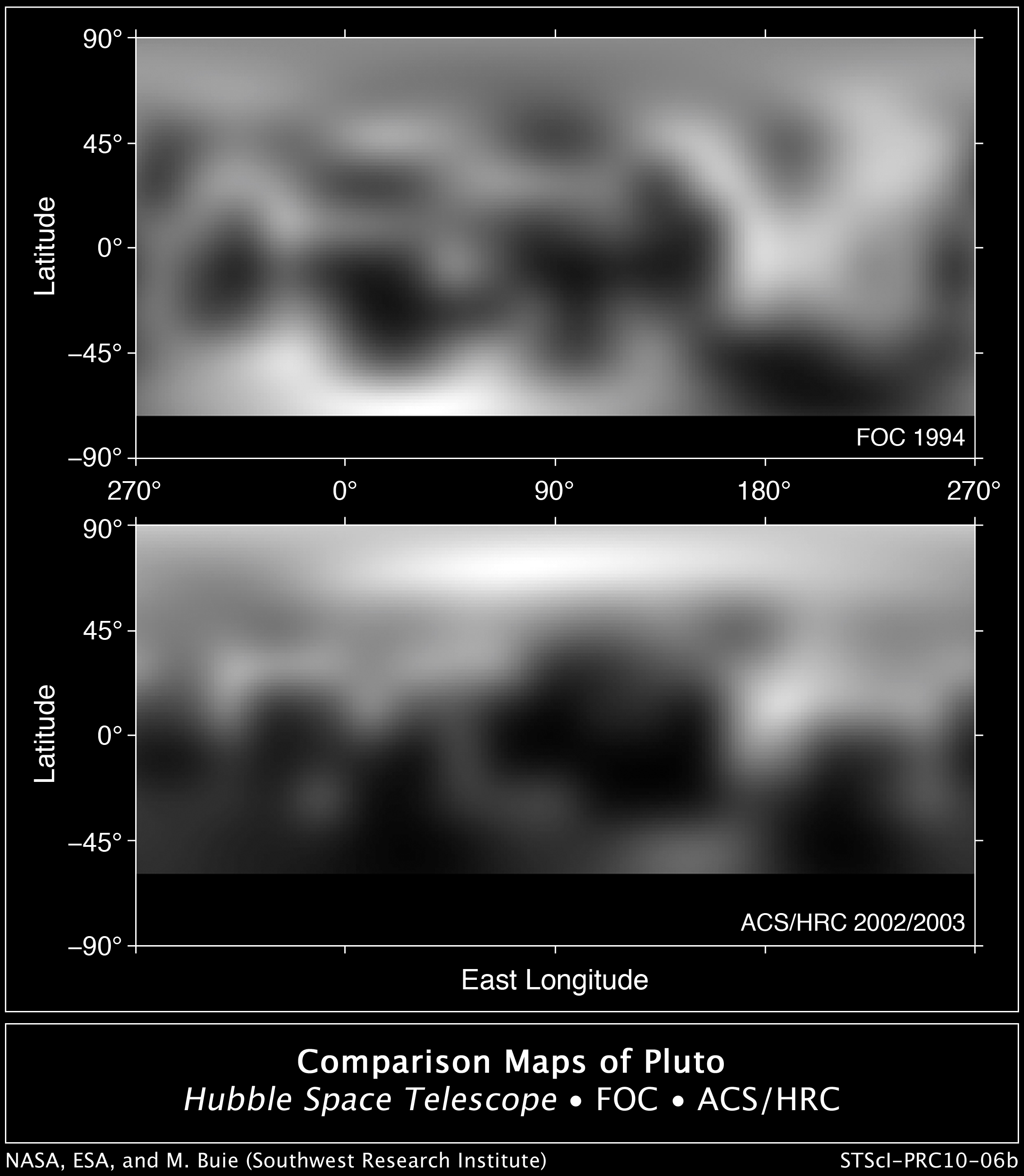 These are two Hubble photo maps of the dwarf planet Pluto, as seen in 1994 and 2002-2003. Hubble's view isn't sharp enough to see craters or mountains, if they exist on the surface, but Hubble does reveal a complex-looking and variegated world with white and charcoal-black terrain. The white areas are surface frost, and the dark areas are a carbon-rich residue caused by sunlight breaking up methane that is present on Pluto's surface. A comparison of the maps shows that Pluto's brightness has changed between 1994 and 2003. The northern pole is brighter and the southern hemisphere is darker. Summer is approaching Pluto's north pole, and this may cause surface ices to melt and refreeze in the colder shadowed portion of the planet. The Hubble pictures underscore that Pluto is not simply a ball of ice and rock but a dynamic world that undergoes dramatic atmospheric changes. These atmospheric changes are driven by seasonal changes that are as much propelled by the planet's 248-year elliptical orbit as its axial tilt, unlike Earth where the tilt alone drives seasons. The top picture was taken in 1994 by the European Space Agency's Faint Object Camera. The bottom image was taken in 2002-2003 by the Advanced Camera for Surveys. The dark band at the bottom of each map is the region that was hidden from view at the time the data were taken.